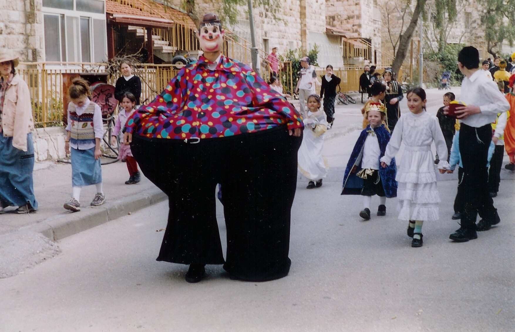 Children dressed in costume and carrying mishloach manot follow a costumed clown on Purim day in Jerusalem, Israel.